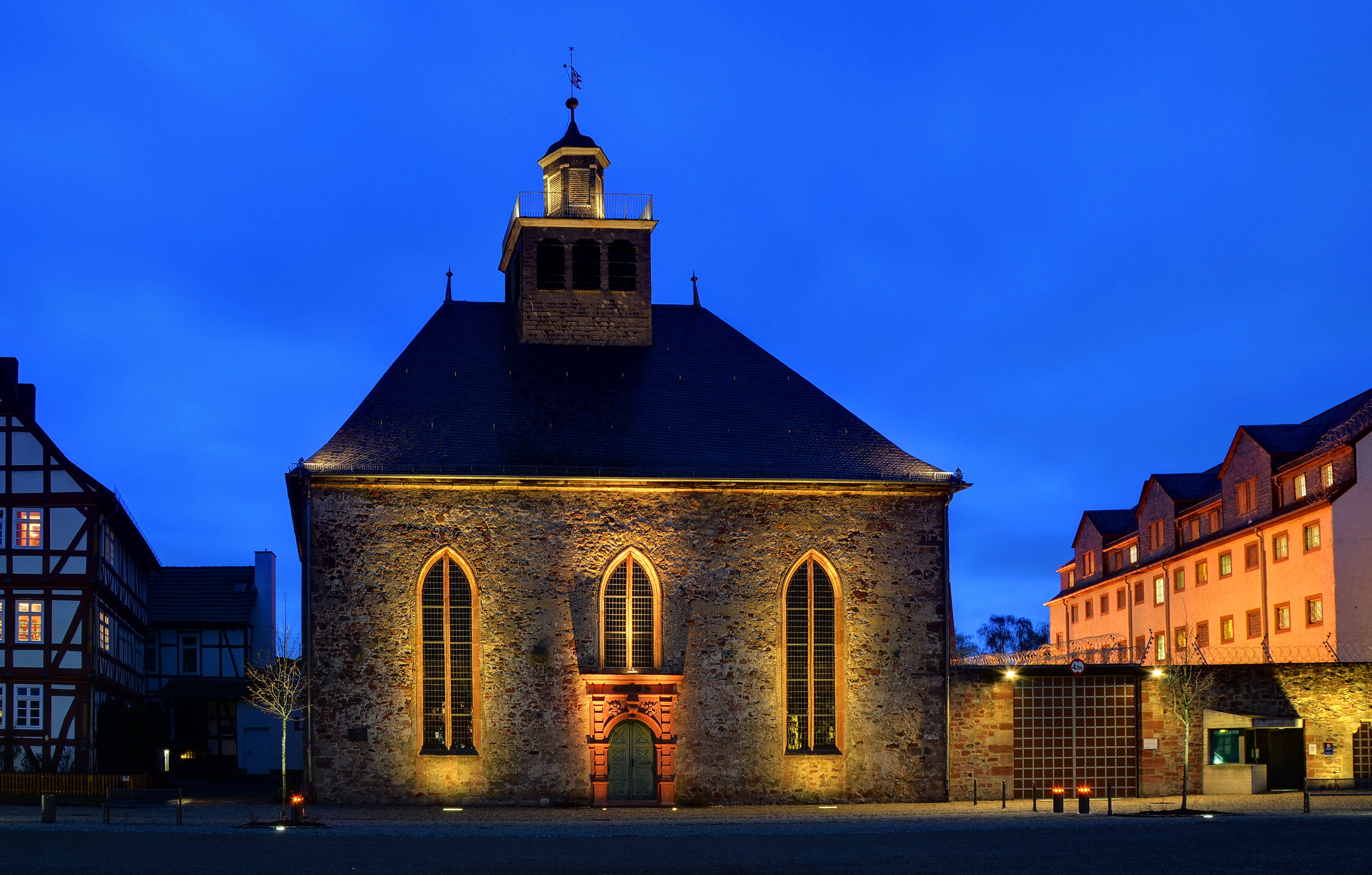 Church in Ziegenhain (Schwalmstadt)